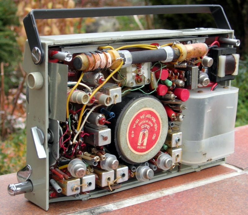 Radio "Guliwer", manufacturer: "ZRK" (Poland), 1965